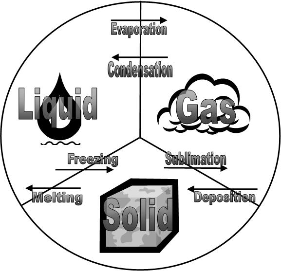 Original text: I, Micah Manary, made this image myself using MS word. It is free for any use without any restrictions. It is a diagram of the 3 main states of matter and their transitions.